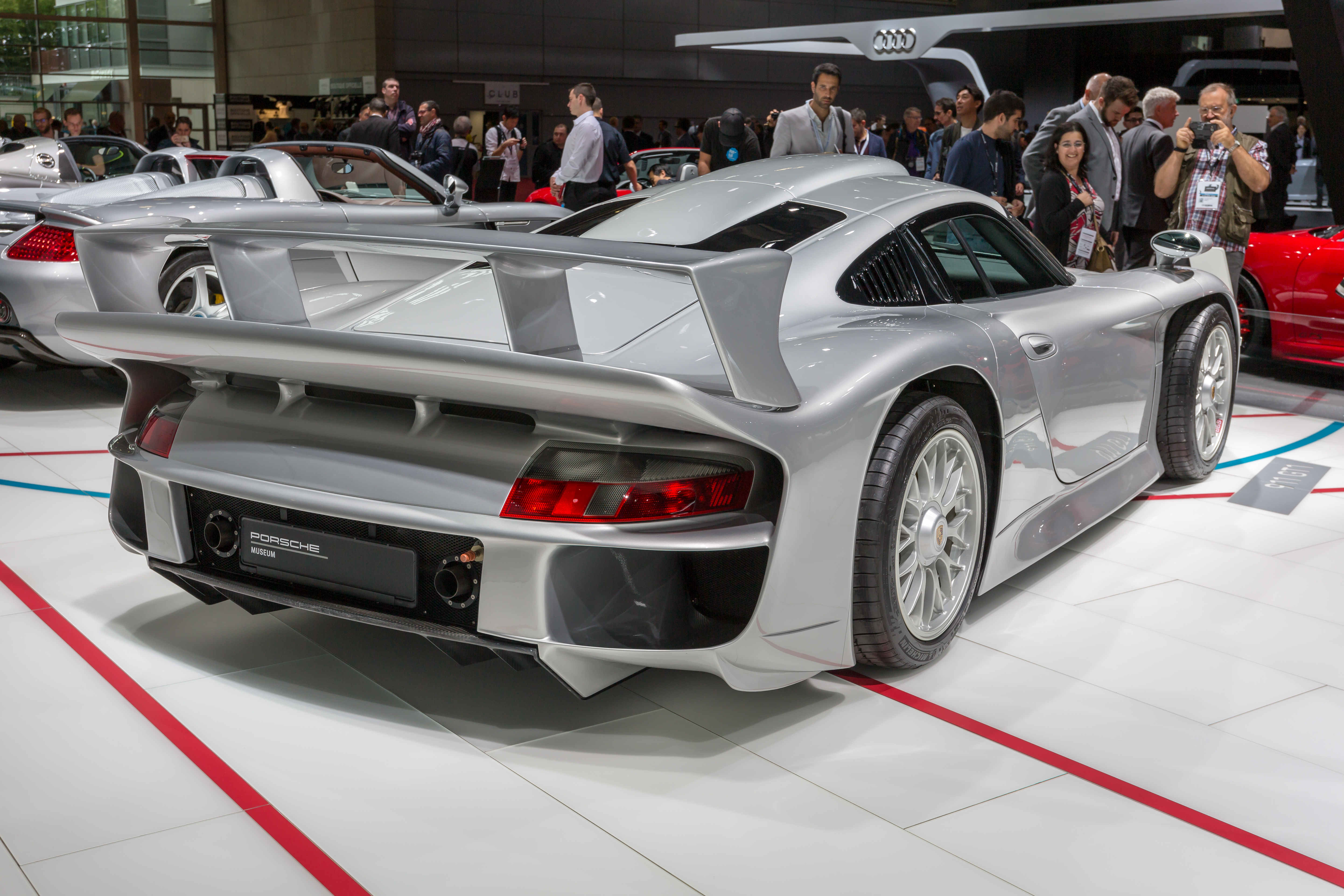 Mondial de l’Automobile de Paris 2018